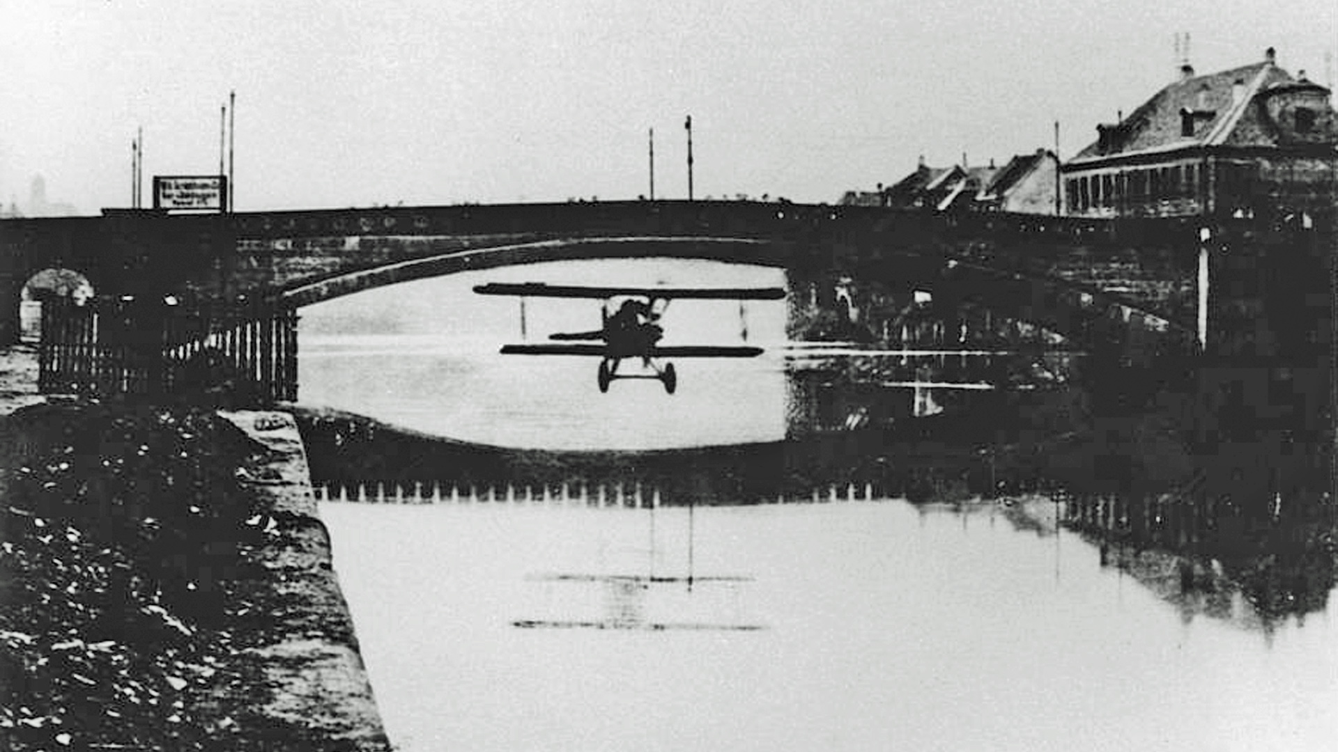 Photomontage from that time from Katzensteins flight under the Fulda bridge of Kassel.